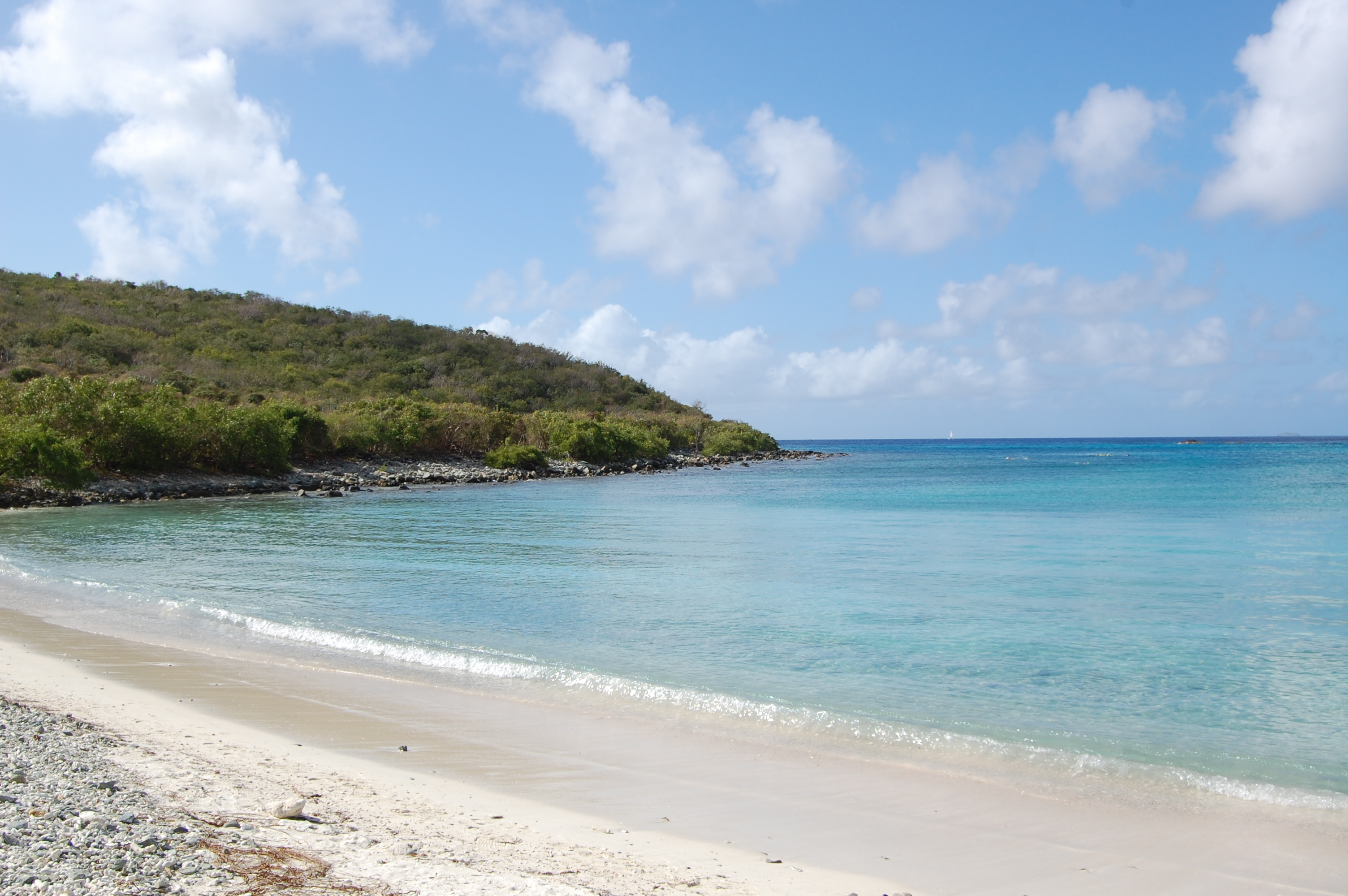 A beach